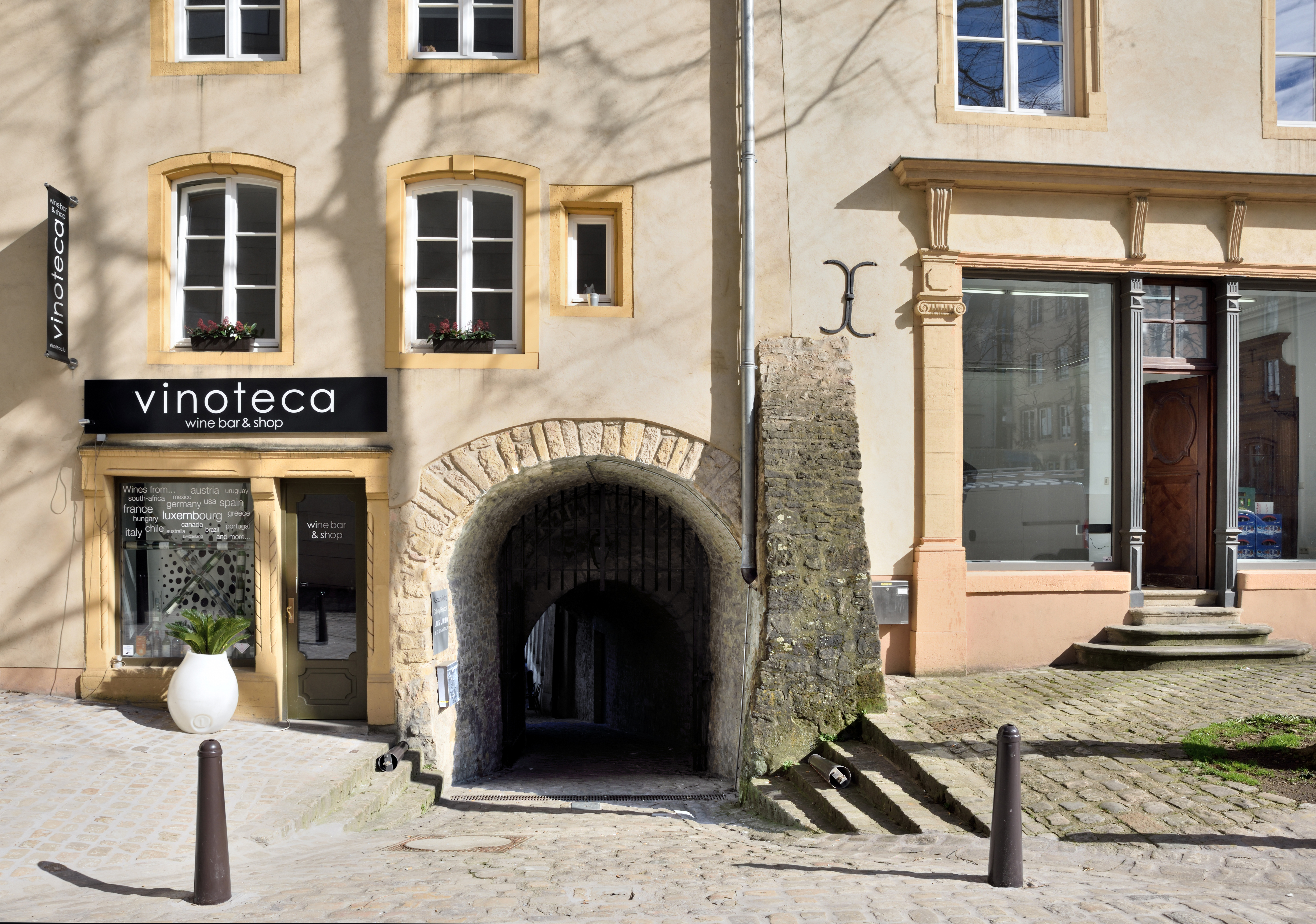 Luxembourg City, 6, rue Wiltheim: the so-called passage Schéieschlach, which leads to the pedestrian lane above boulevard Thorn.